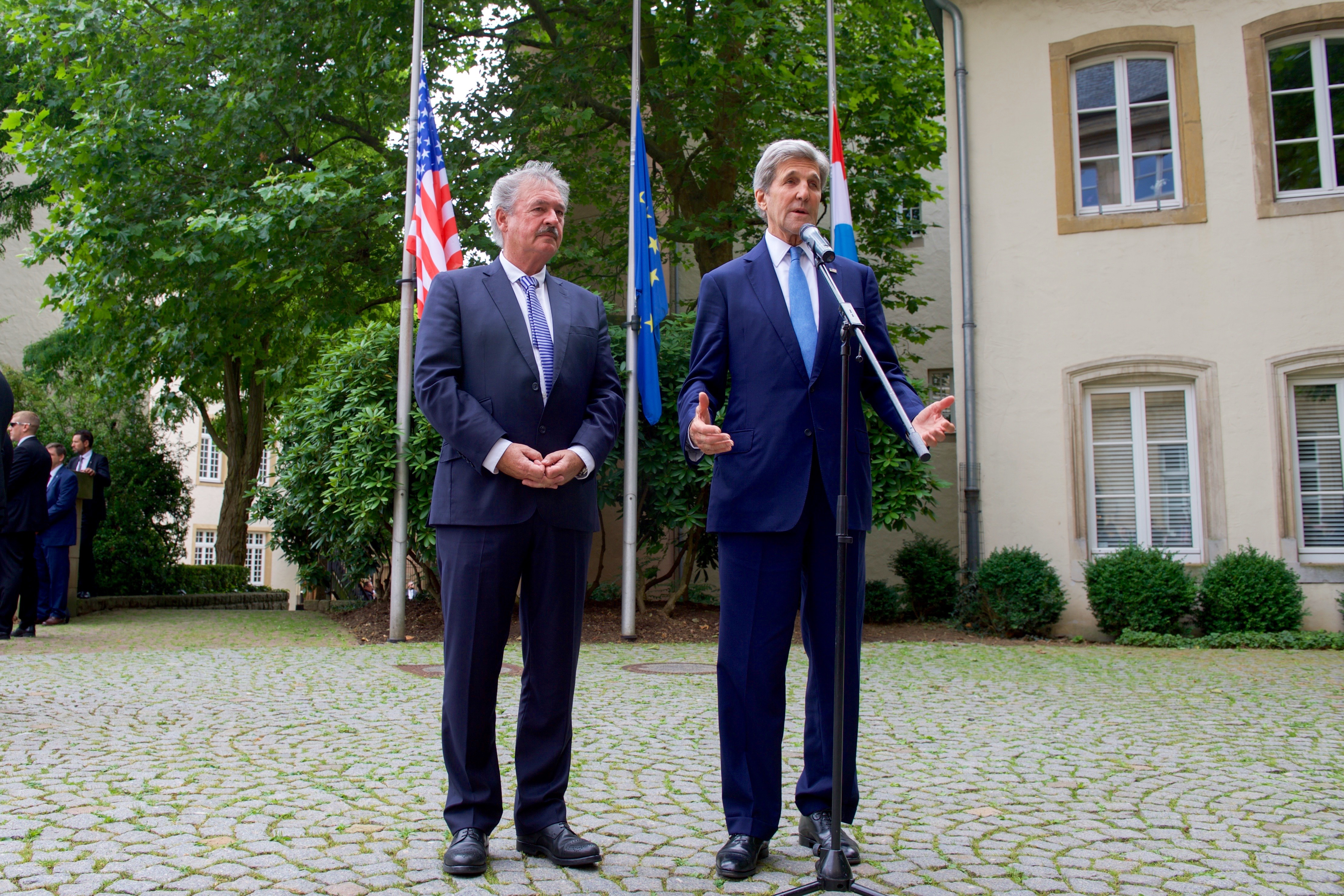 Luxembourgian Foreign Minister Jean Asselborn listens as U.S. Secretary of State John Kerry addresses the media on July 16, 2016, after the Secretary arrived at the Ministry of Foreign Affairs in Luxembourg City, Luxembourg, for a bilateral meeting. [State Department photo/ Public Domain]